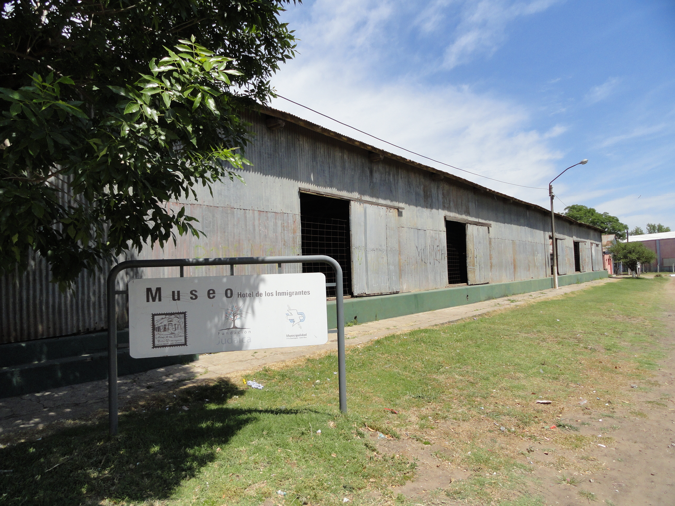 The Immigrants Barn-Hotel has been transformed into an annex of the Museum of the Jewish Colonization in the Center of Entre Rios.